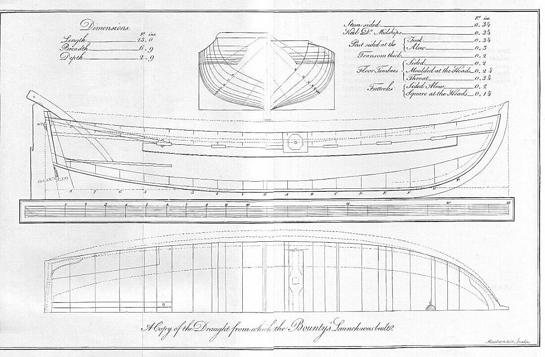 The launch of HMS Bounty, the boat in which Captain Bligh and 18 loyal crew were cast adrift after the mutiny